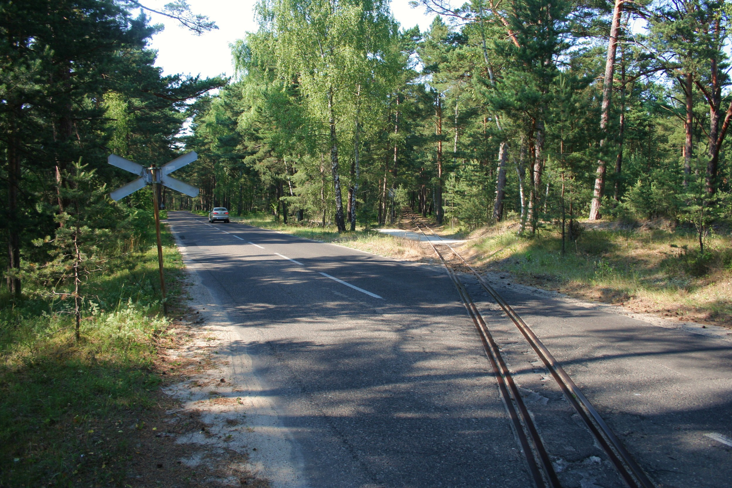 Level crossing in Hel Bór.